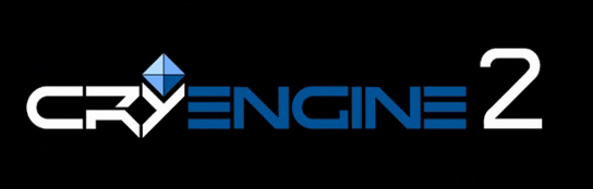 Logo of CryEngine 2 game engine from the game Crysis